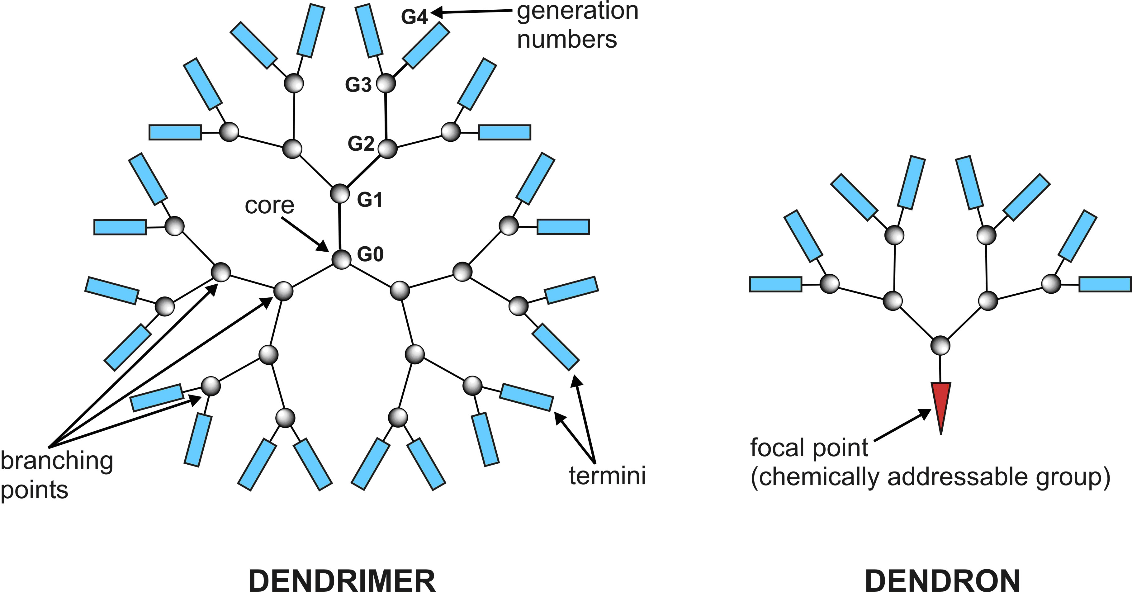 The file is made by Oleg Lukin (myself)